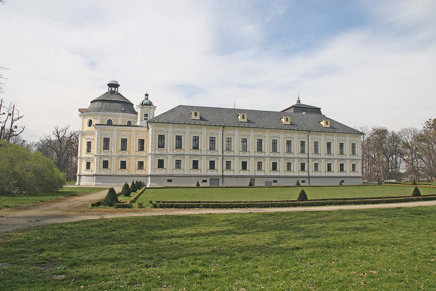 Baroque chateau in town of Kravaře, Opava DIstrict, Czech Republic